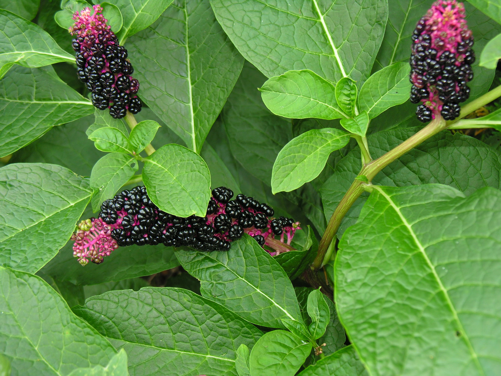 Phytolacca americana Family Phytolaccaceae Photo by Algirdas, 22 Sept. 2005, Lithuania